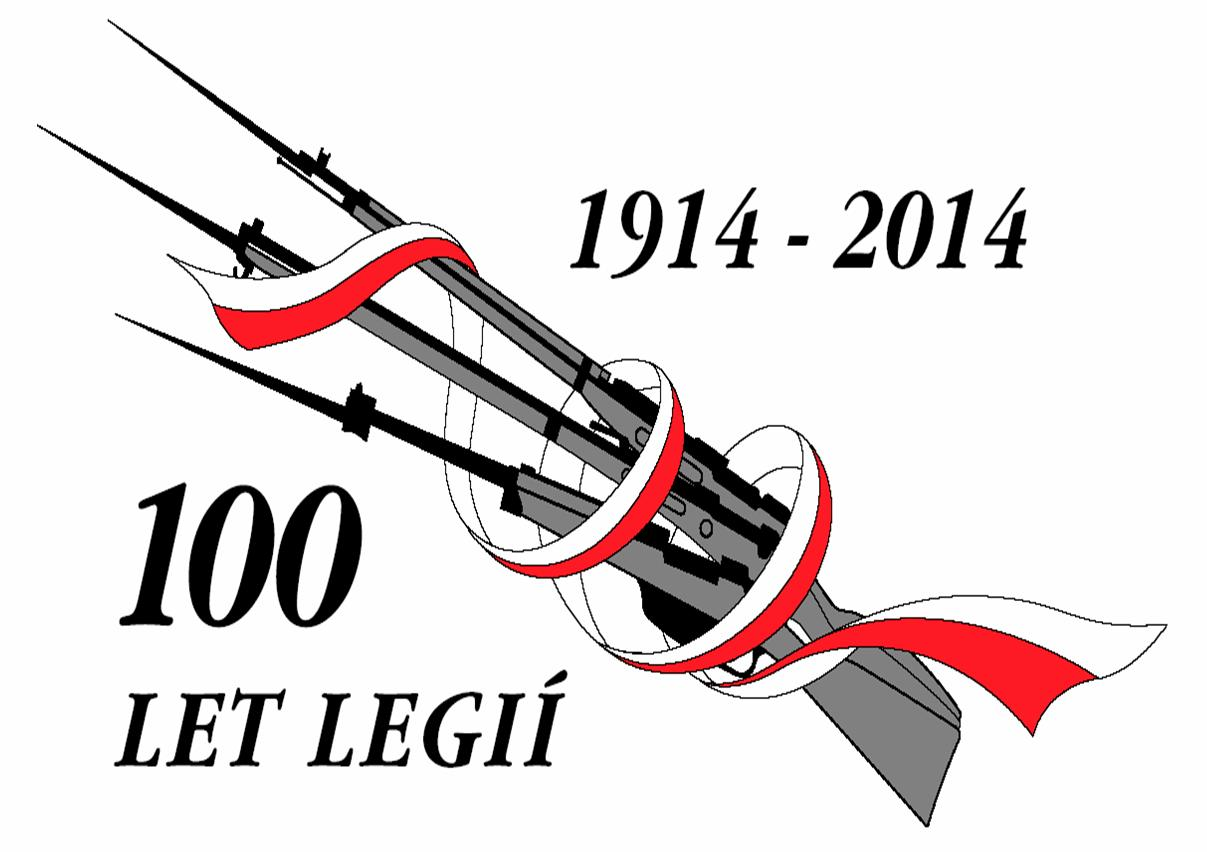 Legie 100 Logo